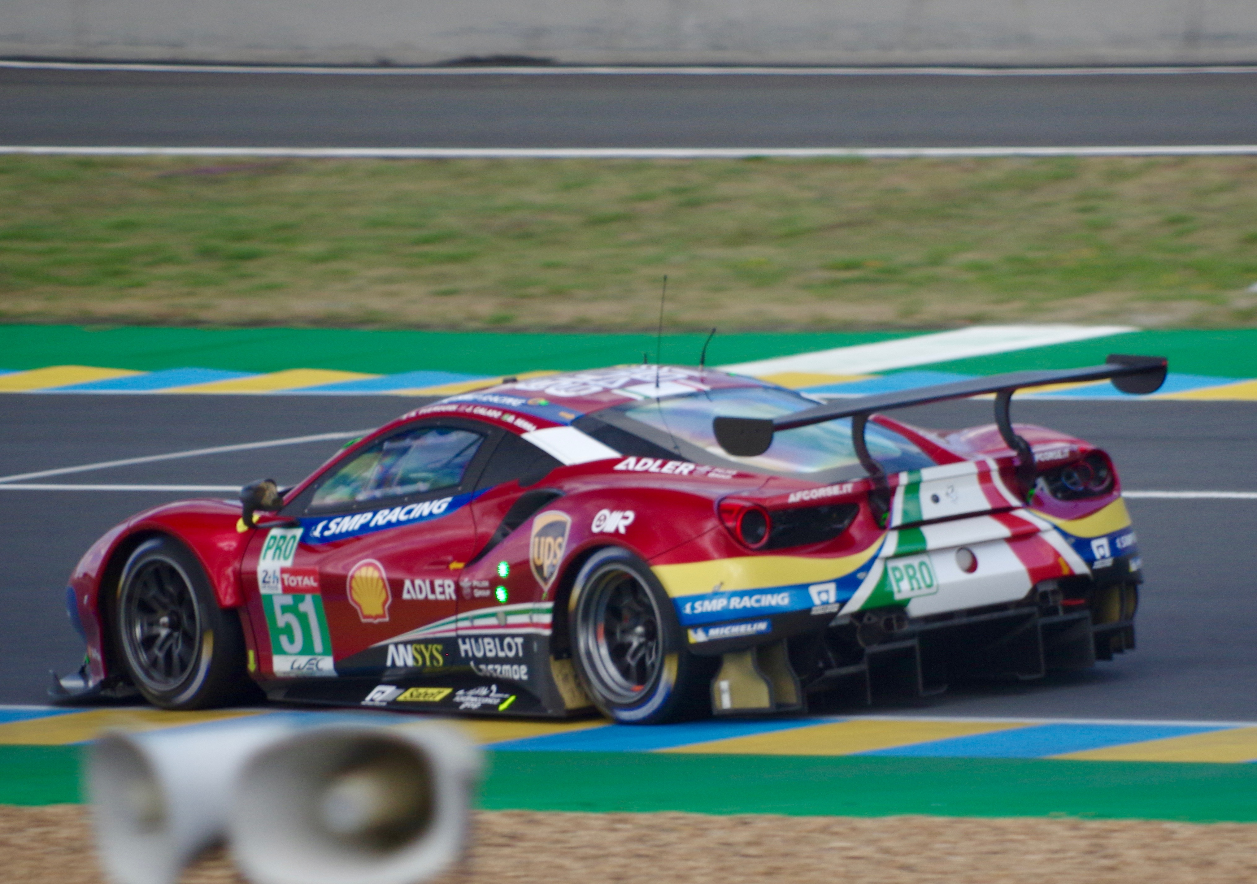 AF Corse's No. 51 Ferrari 488 GTE Evo driven by James Calado, Alessandro Pier Guidi, and Daniel Serra at the 2019 24 Hours of Le Mans